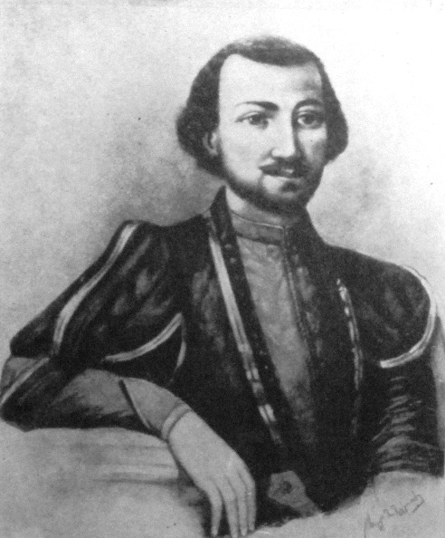 An attempt by the Georgian artist Taras Momtsemlidze (died in 1933) to reconstruct the portrait of the Georgian poet Nikoloz Baratashvili